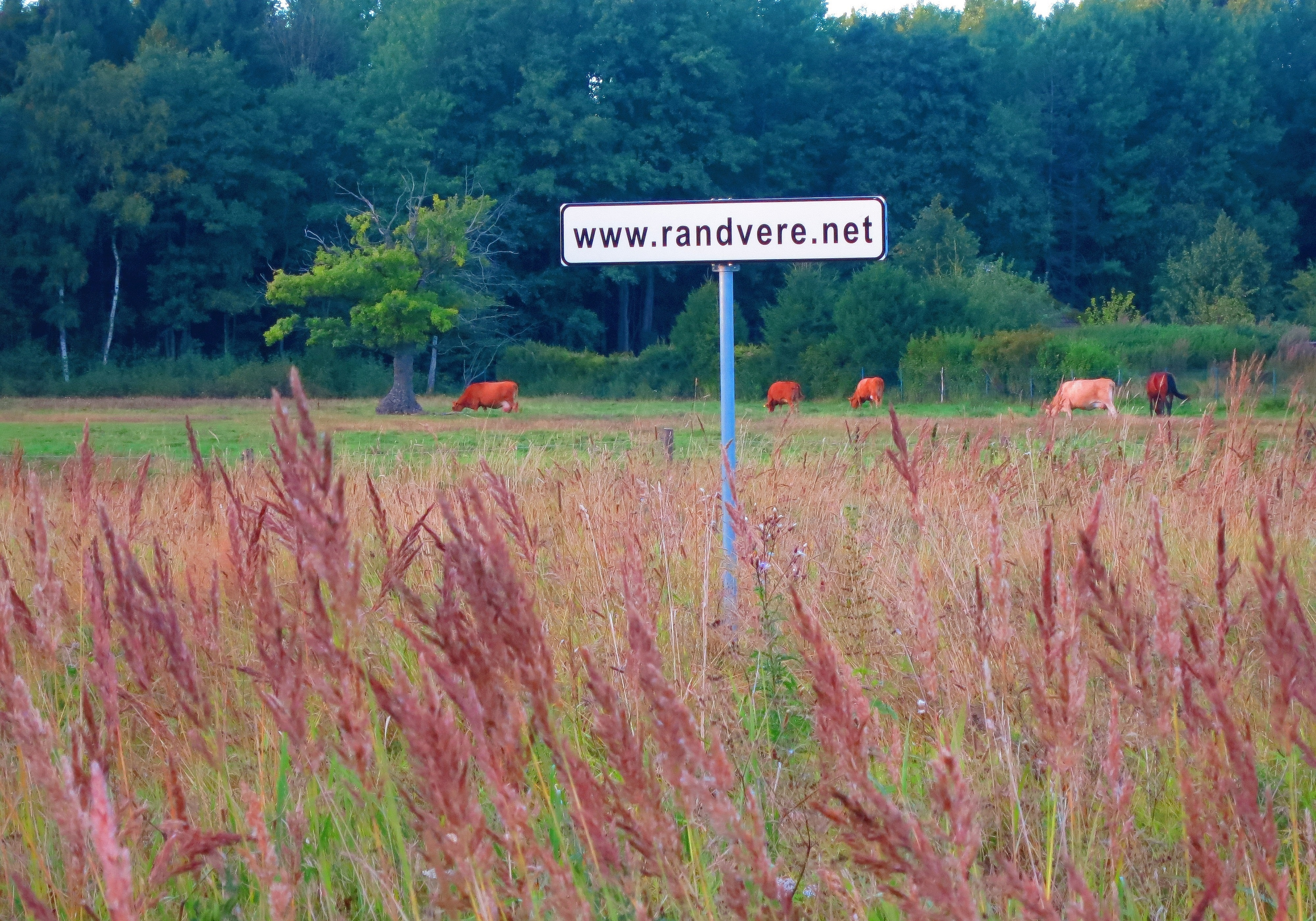 Traditional and innovatic meeting at the border of Metsakasti and Randvere (Estonia).